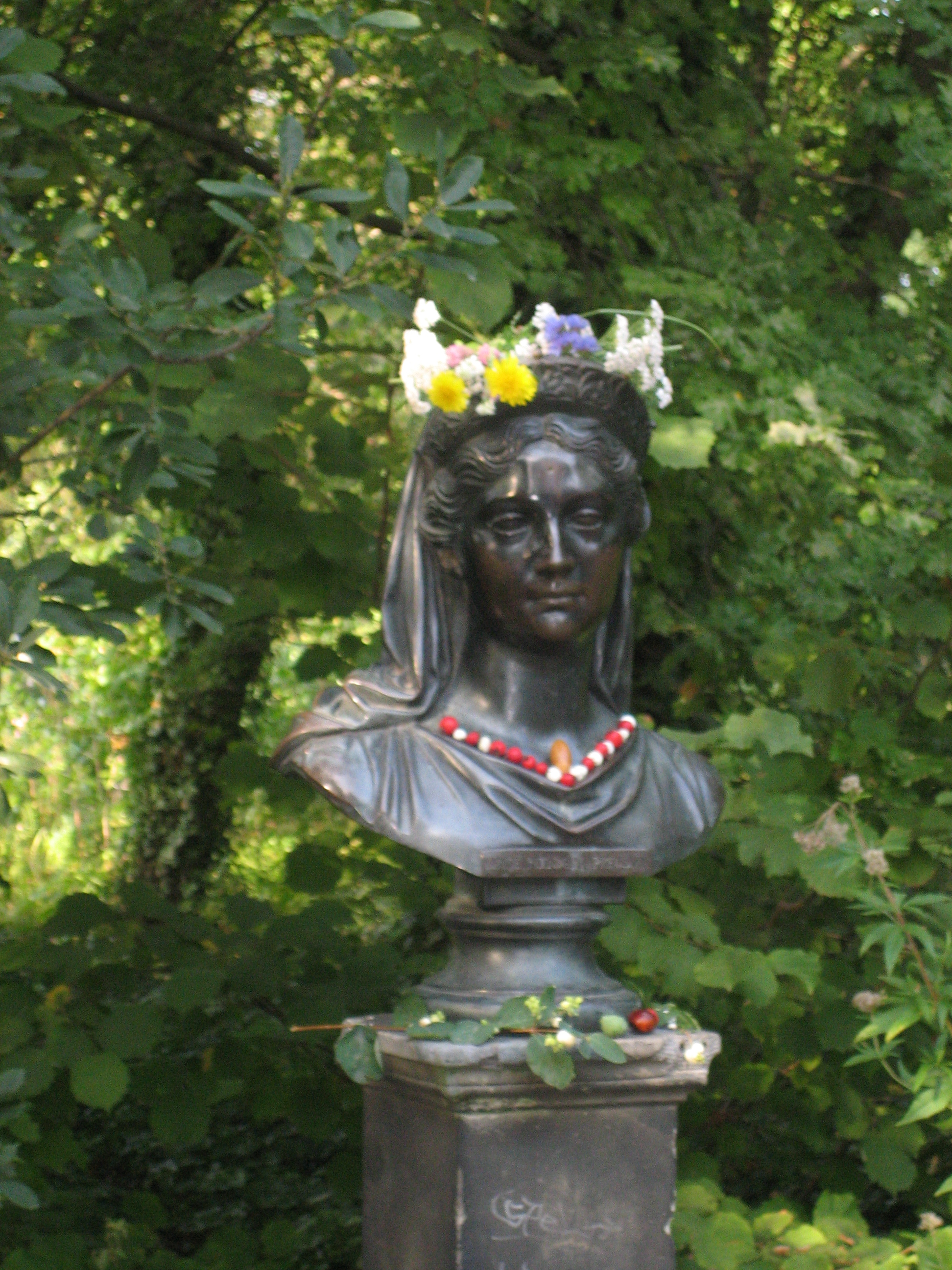 Bust of Louise of Mecklenboug-Strelitz in the park of Charlottenburg, Berlin